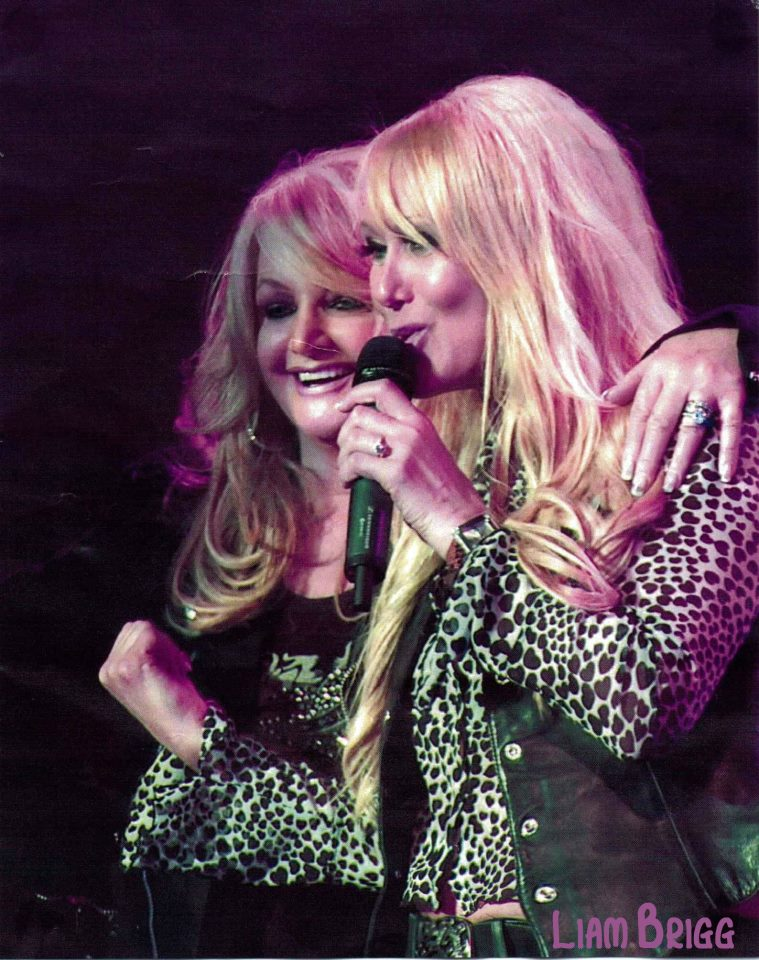 An image of Bonnie Tyler (singer) and Lorraine Crosby (singer) at Newcastle City Hall, March 28 2011.